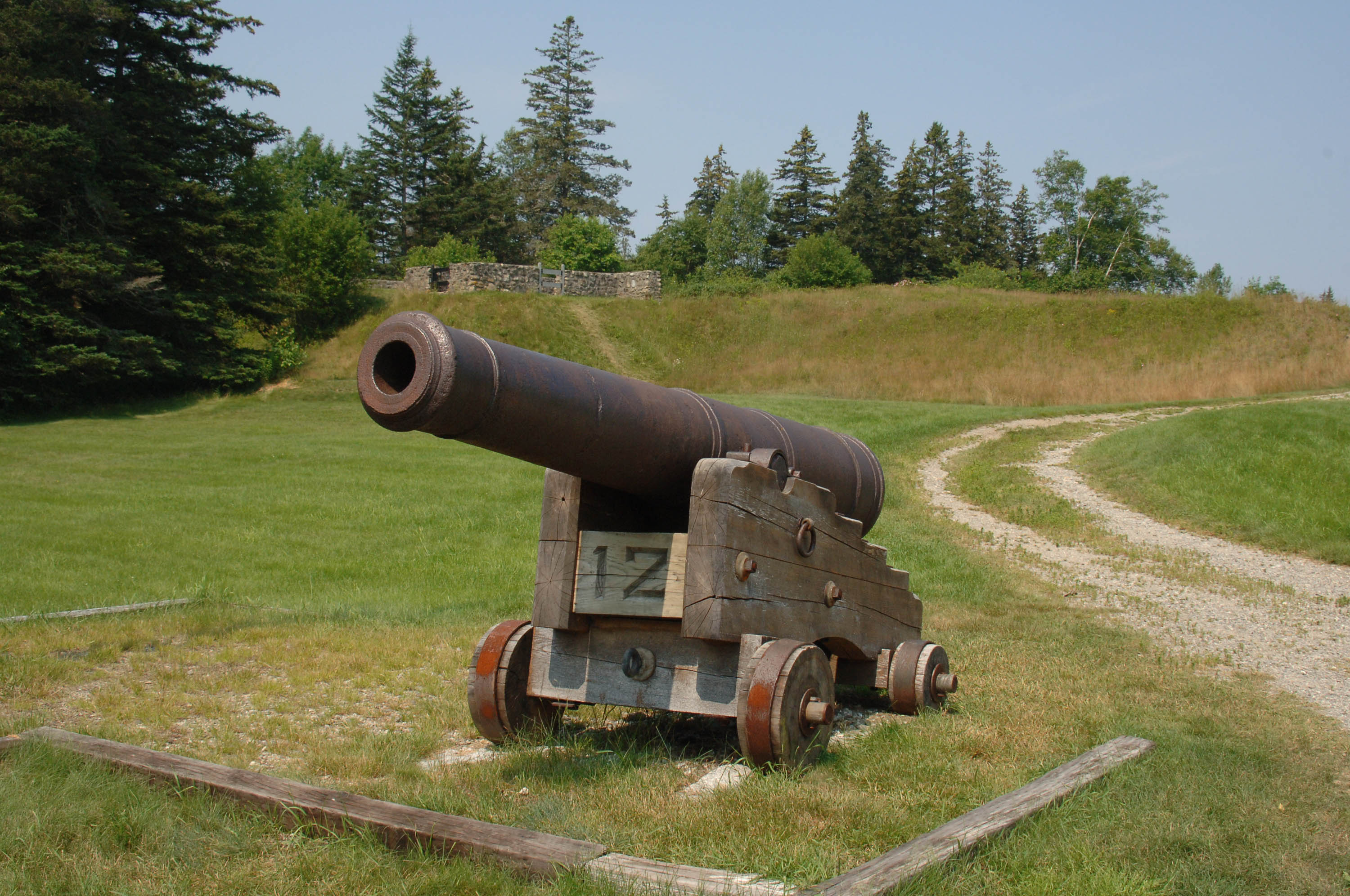 1779 EARTHWORKS IN CASTINE; RESTORED BASTION AND FOUNDATIONS OF POWDER MAGAZINE BUILT BY THE BRITISH AND REGARRISONED BY THE BRITISH DURING THE OCCUPATION IN THE WAR OF 1812